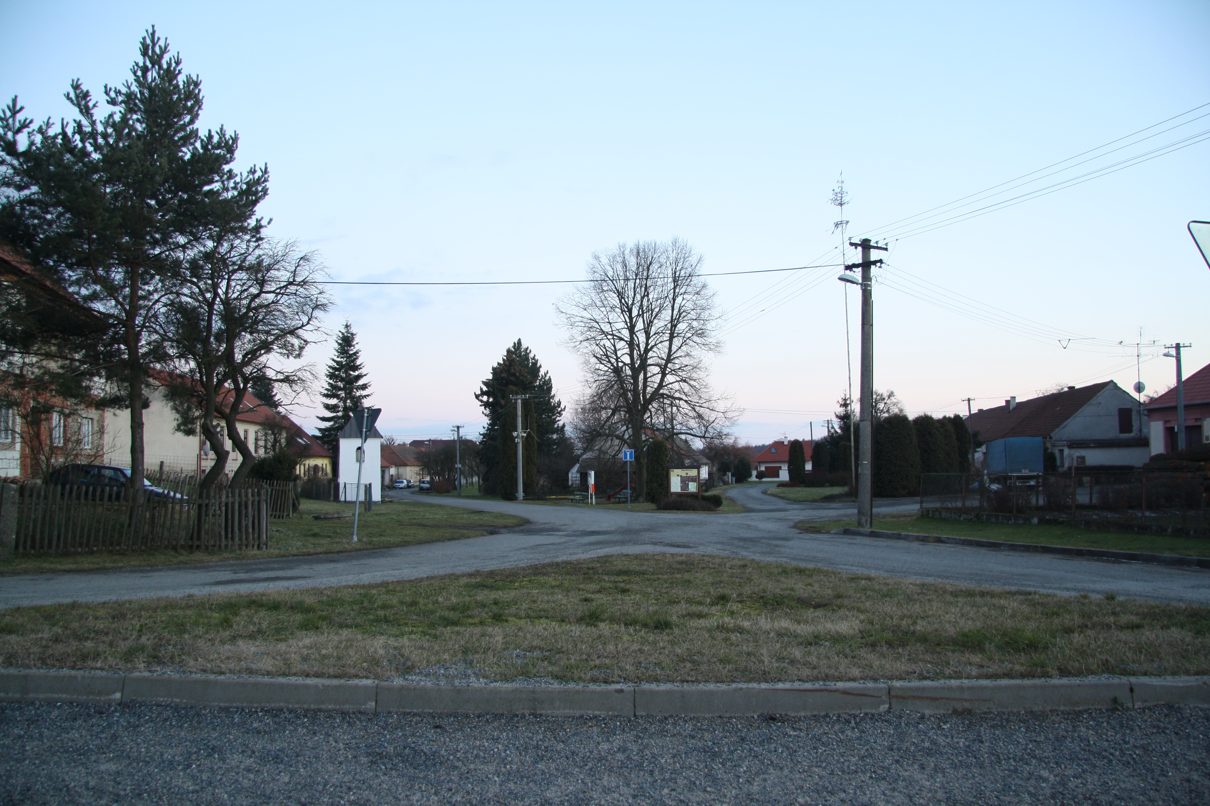 Center of Otradice, Náměšť nad Oslavou, Třebíč District.